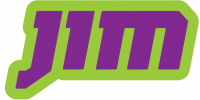 Logo of the Flemish broadcaster JIM (2010-Current)